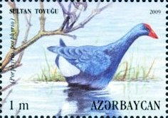 Marsh waterfowls.